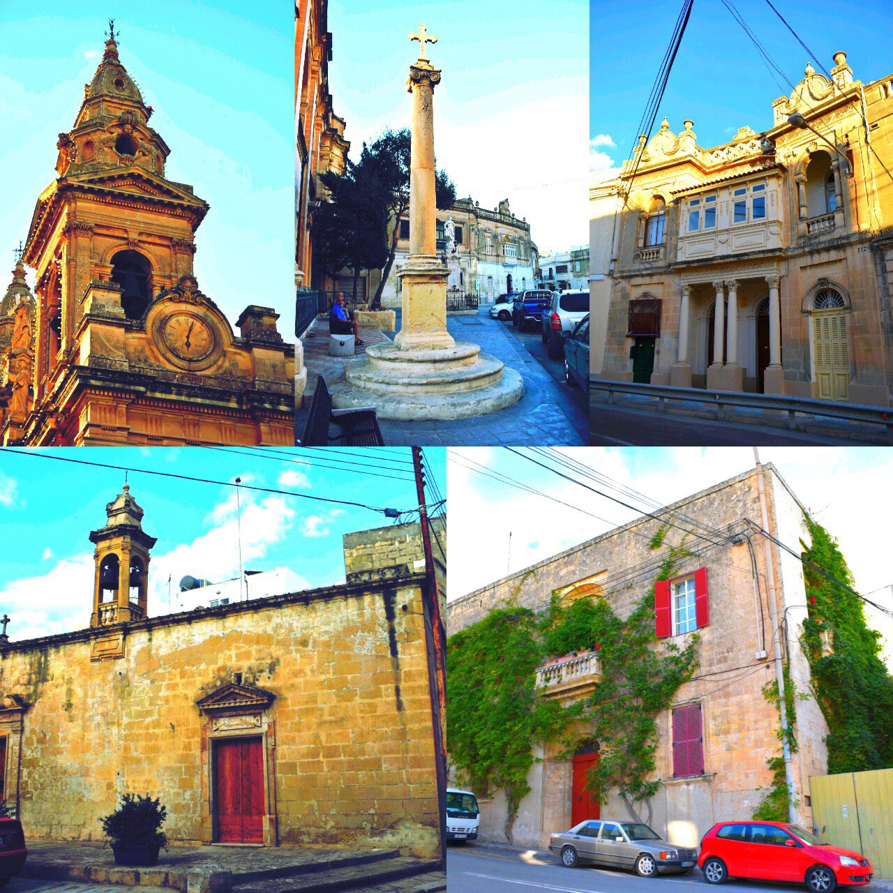 Buildings in Luqa and monuments